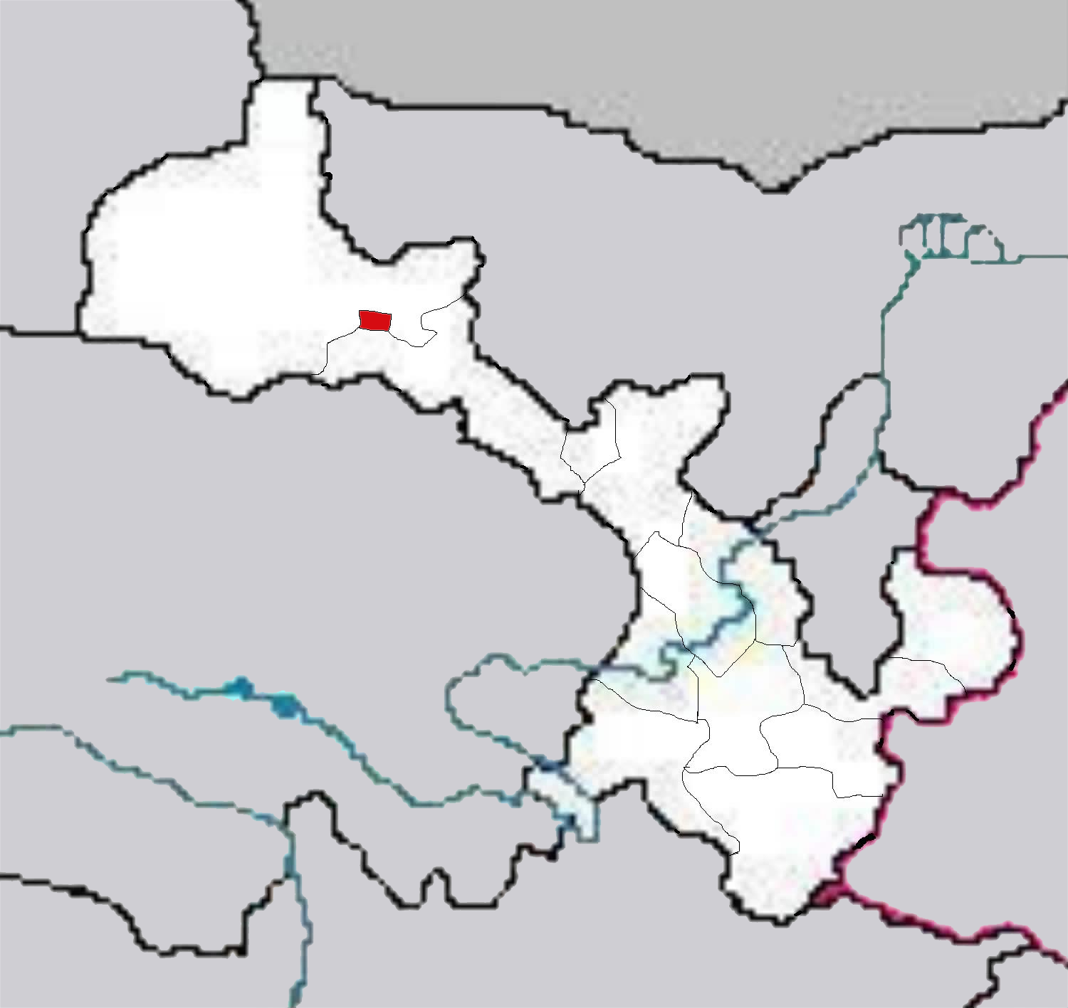 maps of Gansu Province of China